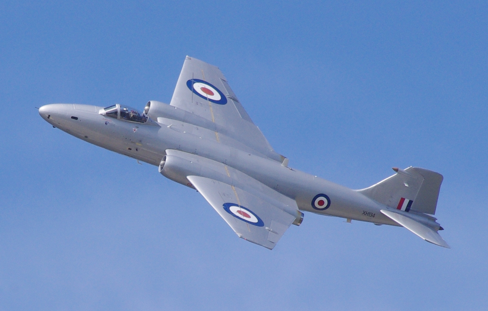 English Electric Canberra Taken on 19 July 2014.